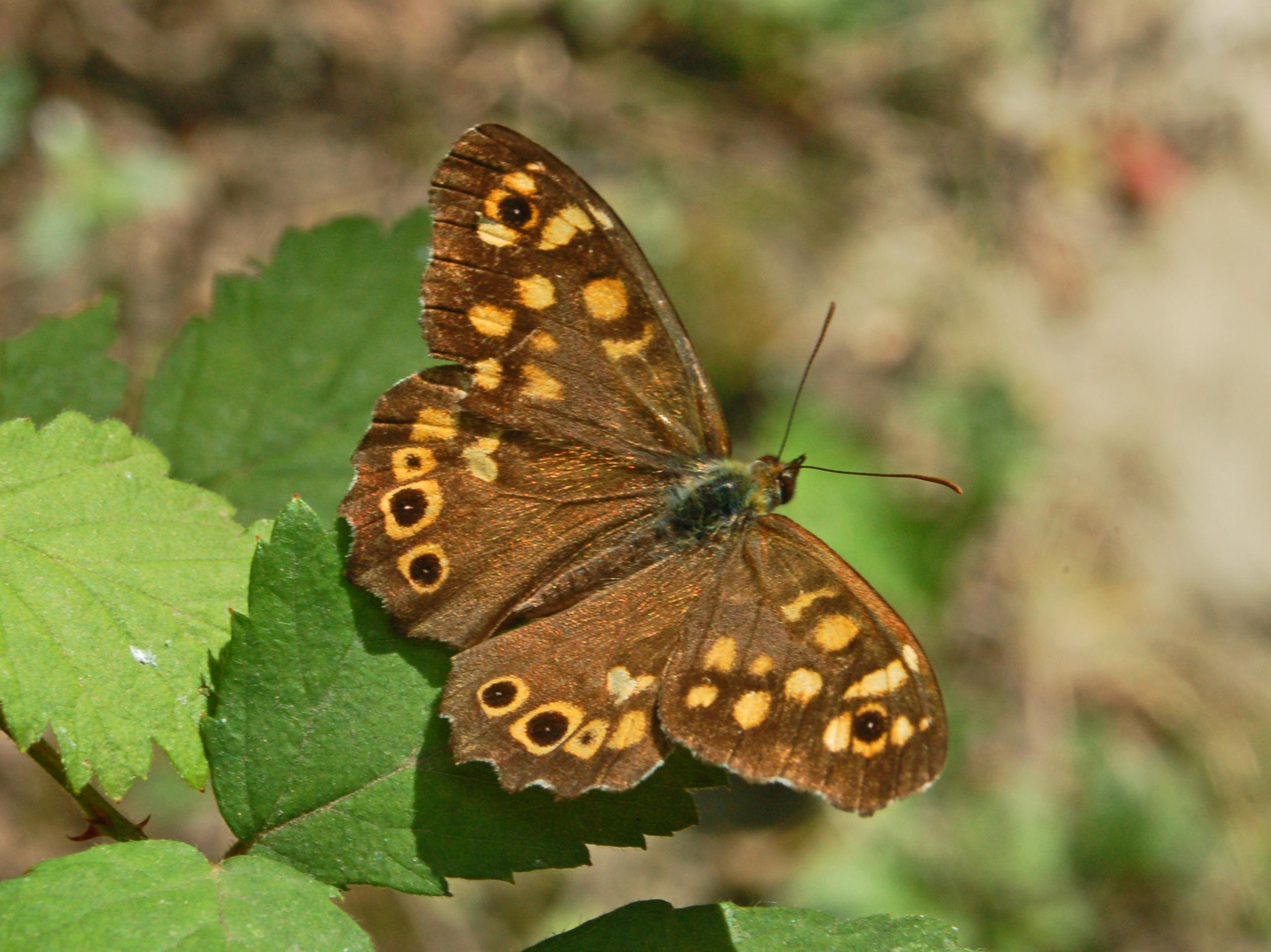 Satyrinae - Pararge aegeria